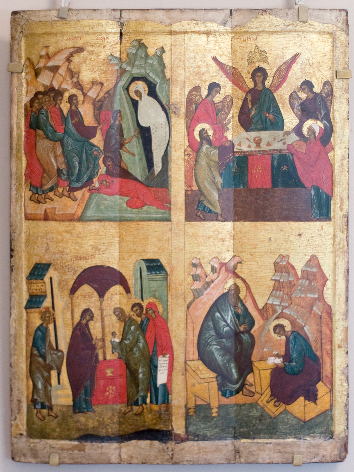 THE RAISING OF LAZARUS, THE HOLY TRINITY, THE PRESENTATION OF CHRIST IN THE TEMPLE, ST. JOHN THE EVANGELIST AND ST. PROCHORUS First half— mid-15th Century. Novgorod From the Church of St. George, Novgorod